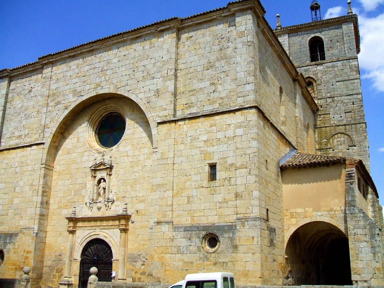 Iglesia de Santa Eugenia (Astudillo)